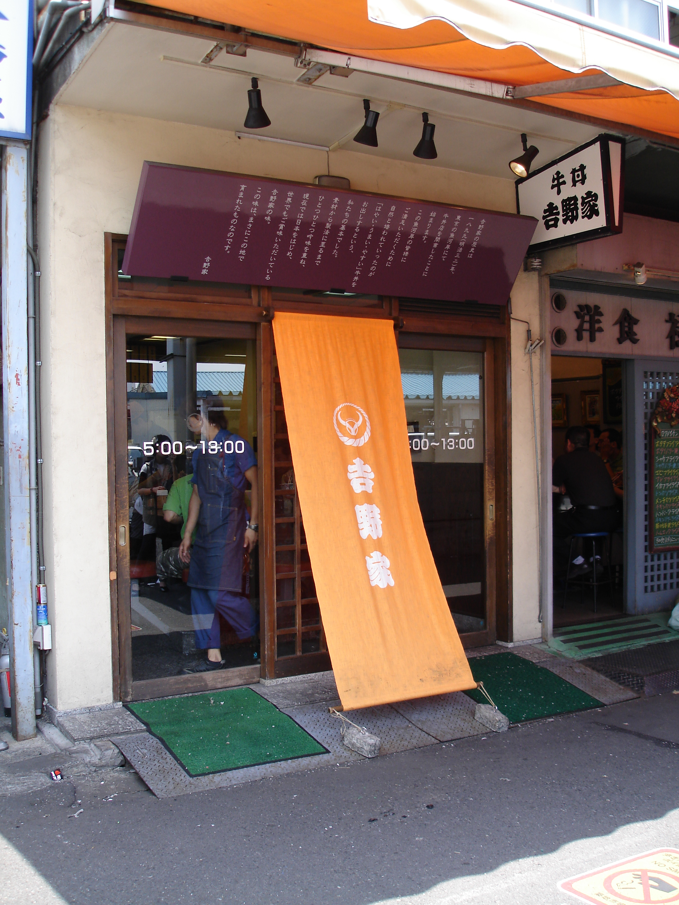 at the outside marketplace of Tsukiji fish market